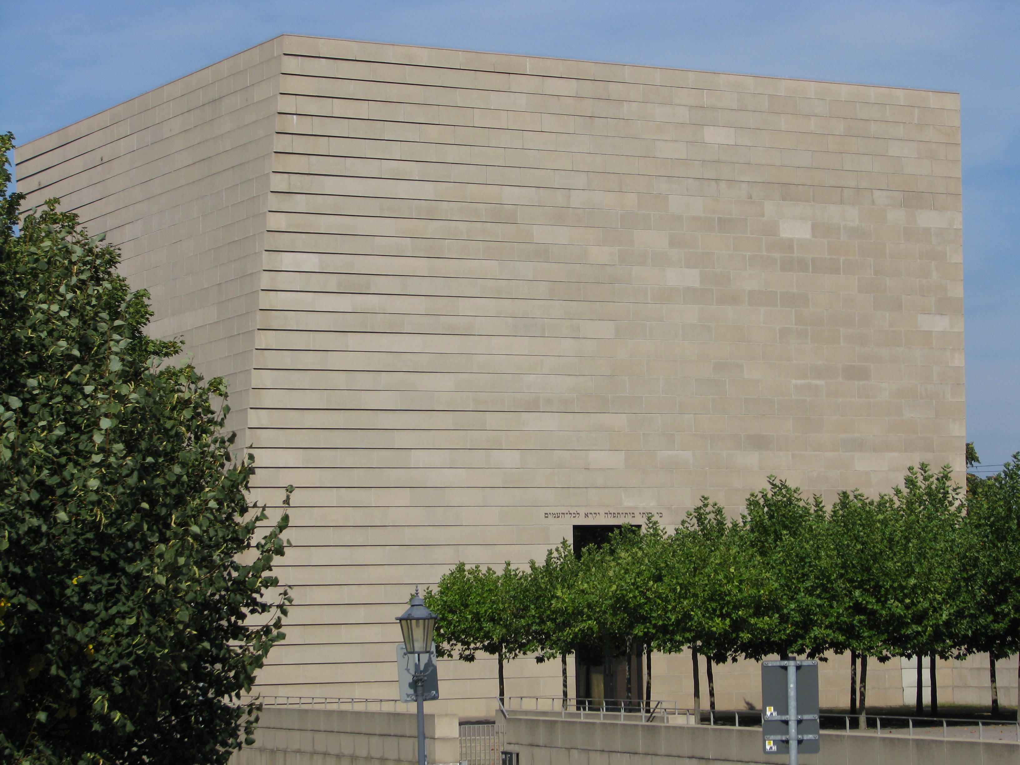 Dresden Neue Synagoge